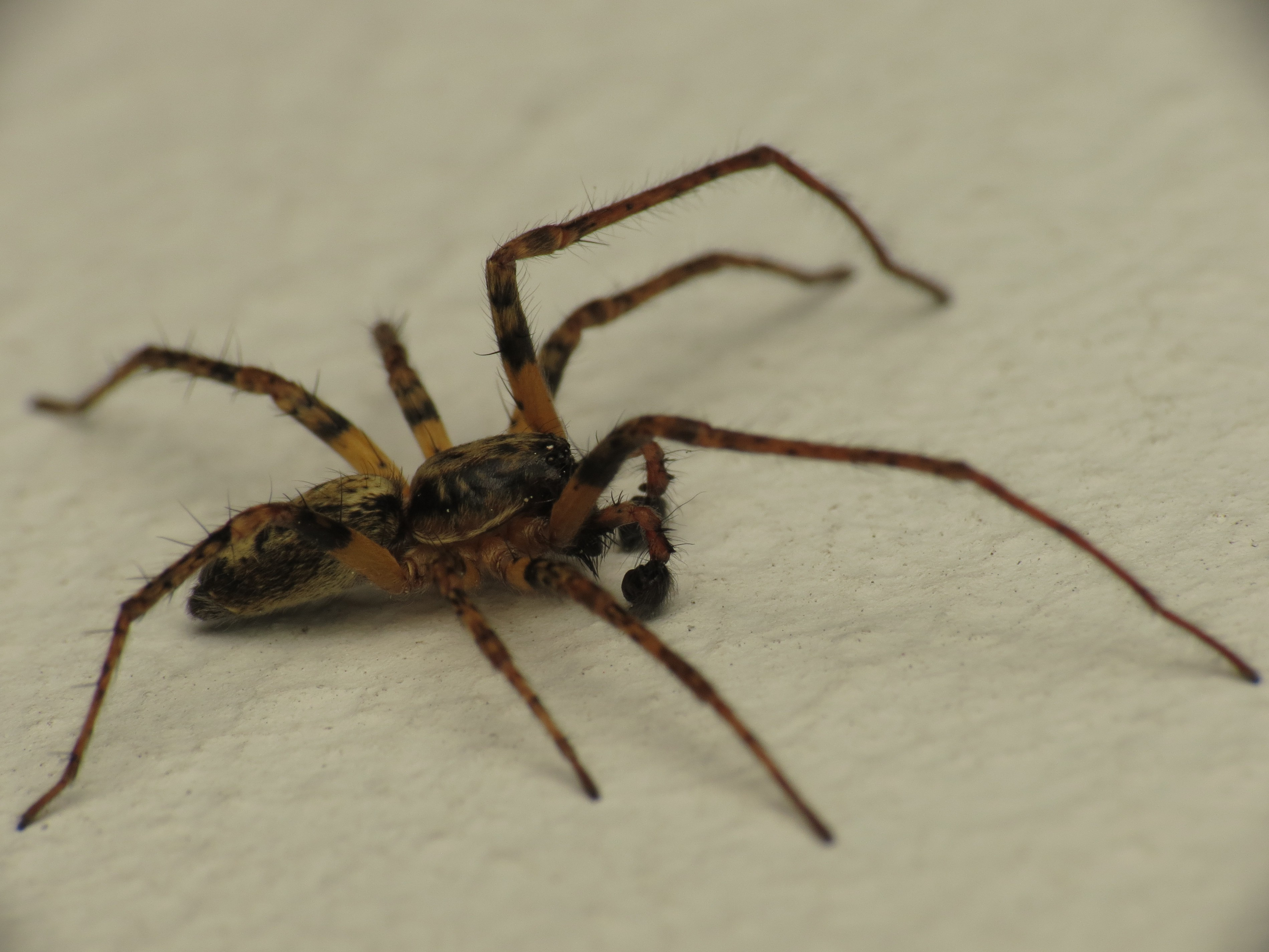 Anyphaena accentuata (Walckenaer, 1802), Hellerup, Denmark, 27 May 2013